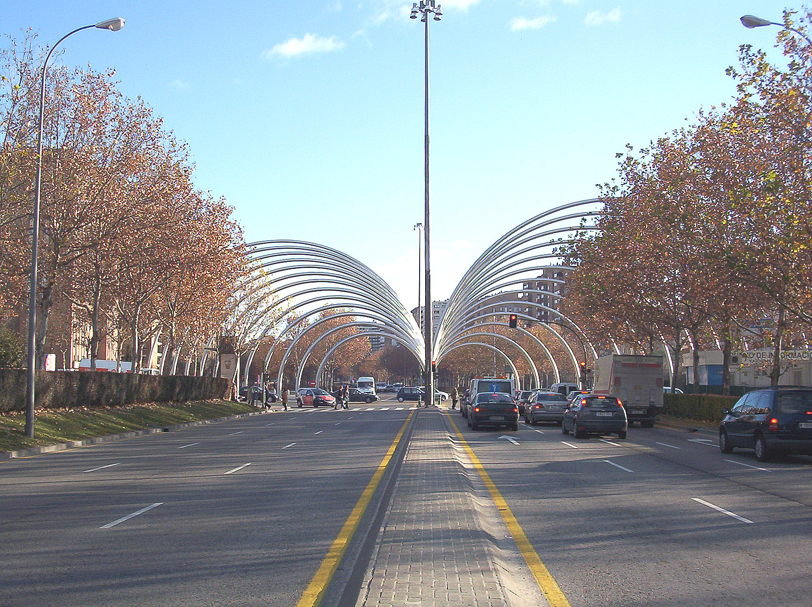 Avenida de la Ilustración (avenue) in Madrid (Spain). In the background, Puerta de la Ilustración ("Gate of Enlightenment"), a stainless steel monument designed by Andreu Alfaro (born 1929) and built in 1990.